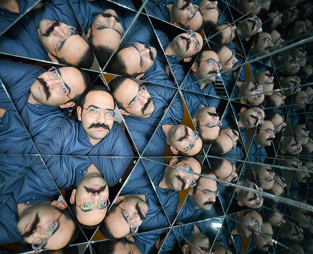 آینه بینهایت مثلثی یکی از آثار موجود در موزه ساخته شده به دست صالح سخندان است